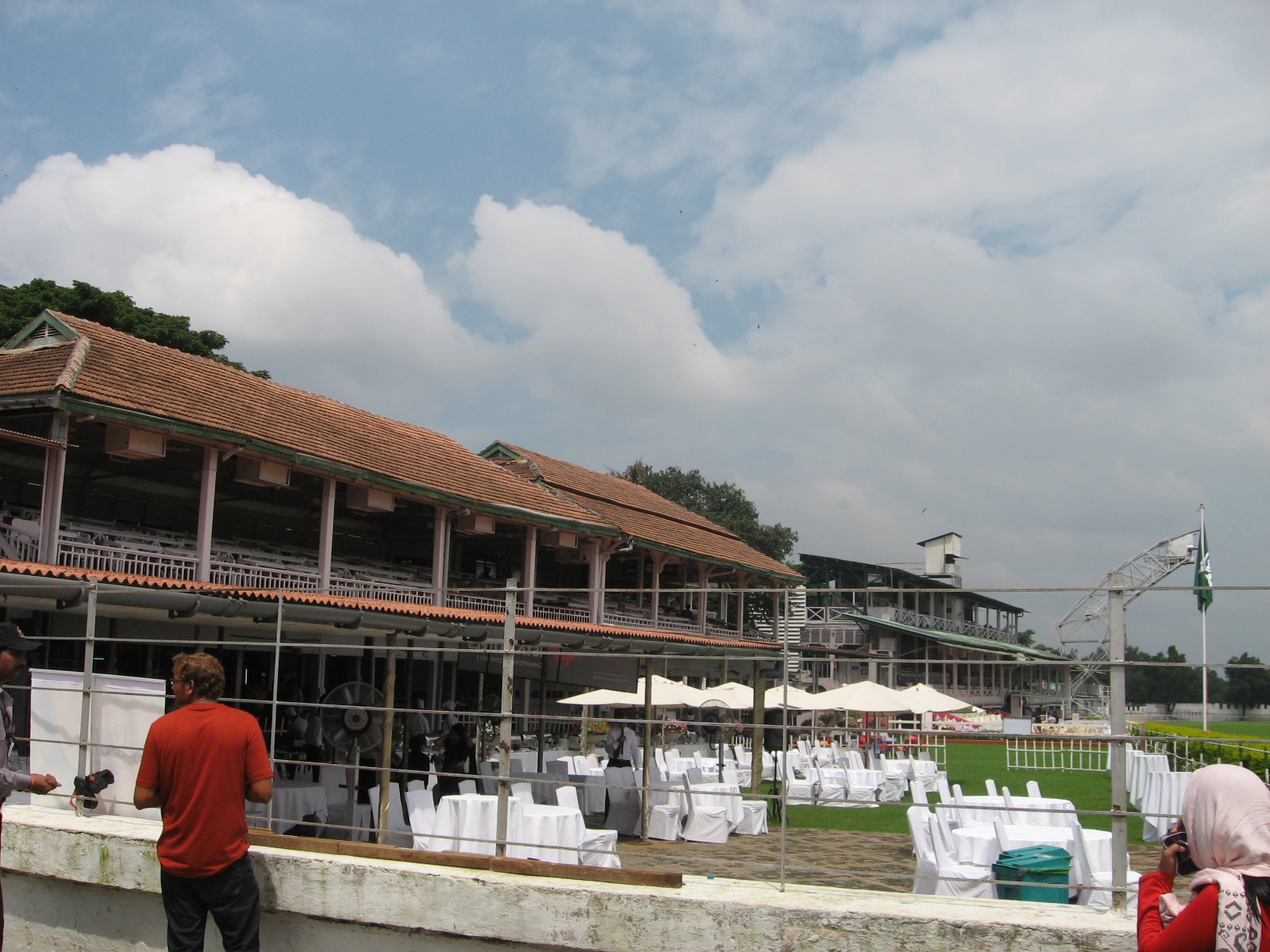 This is the best race course of Pune Lush grees